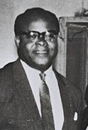 Independence Day celebrations at Israeli Embassy Accra, Ghana. Israeli Government Press Office.